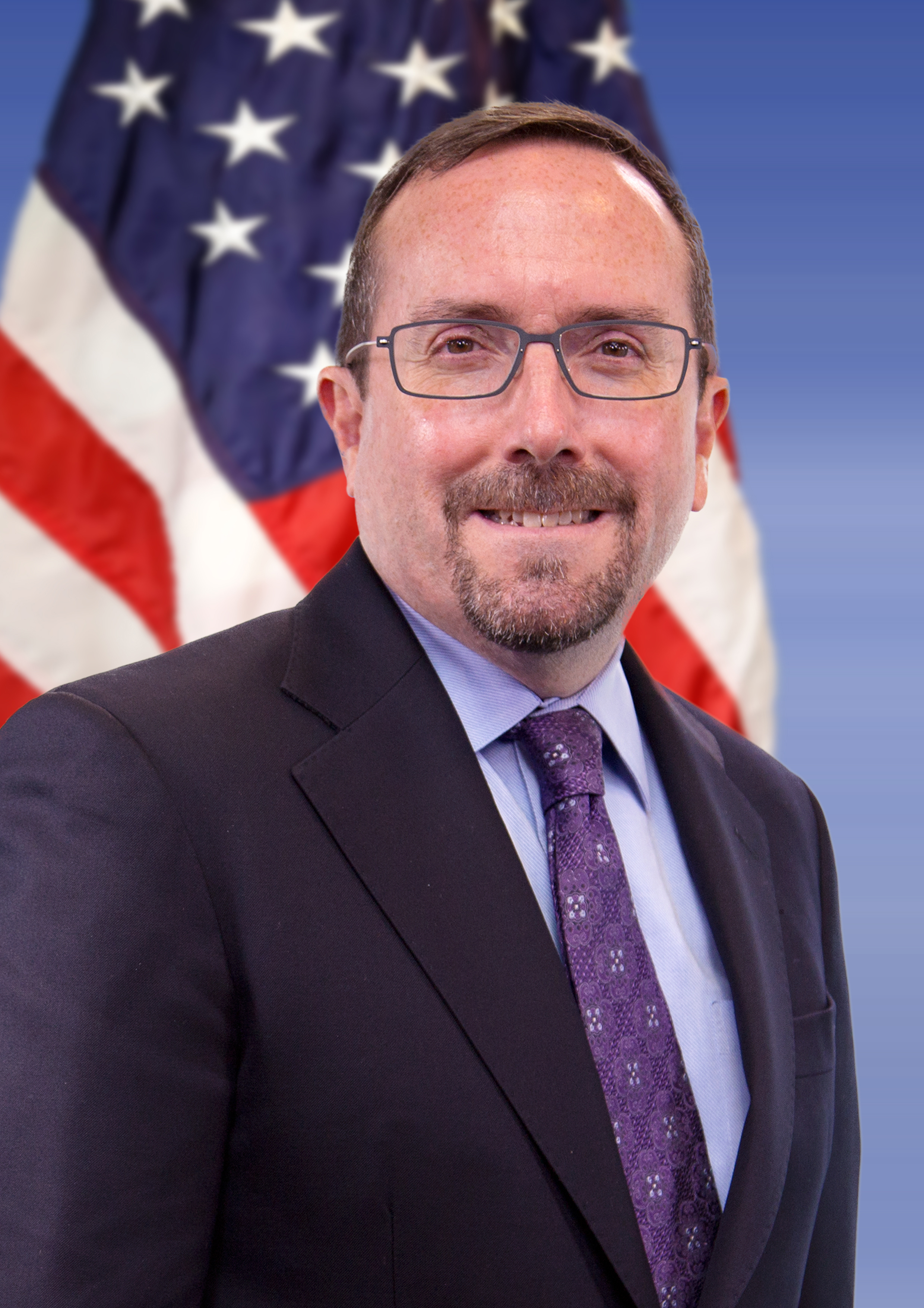 John R. Bass official photo